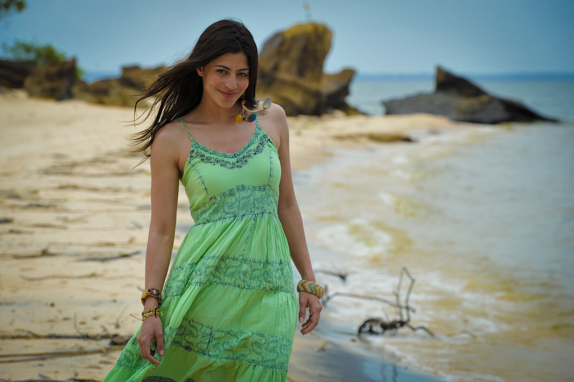 Carol Castro, brazilian actress and model.